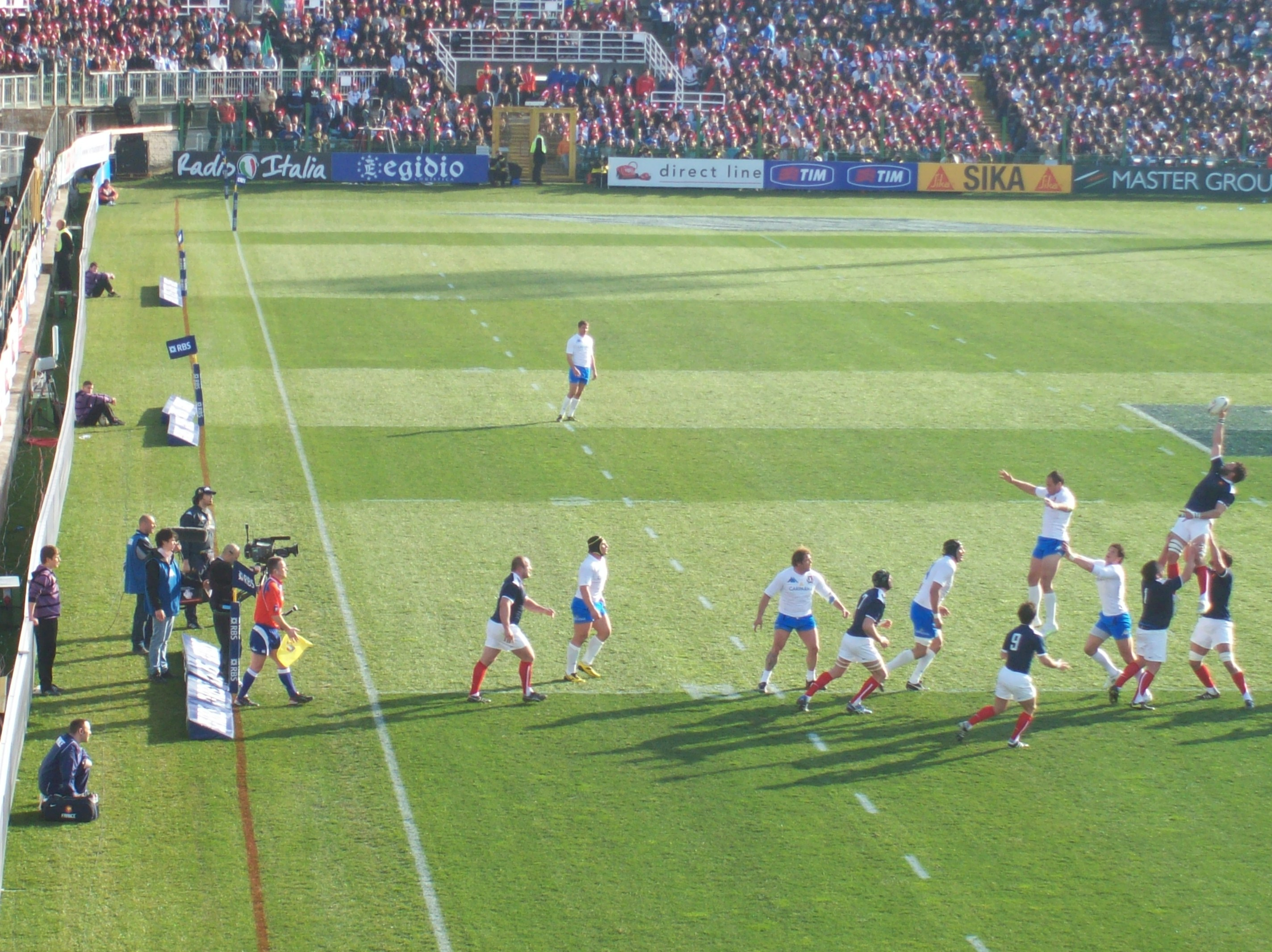 A lineout contested by Italy and France at the 2011 Six Nations Championship